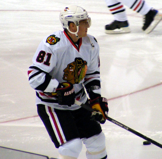 Marian Hossa during pre-warm-up at HP Pavilion in San Jose, CA.